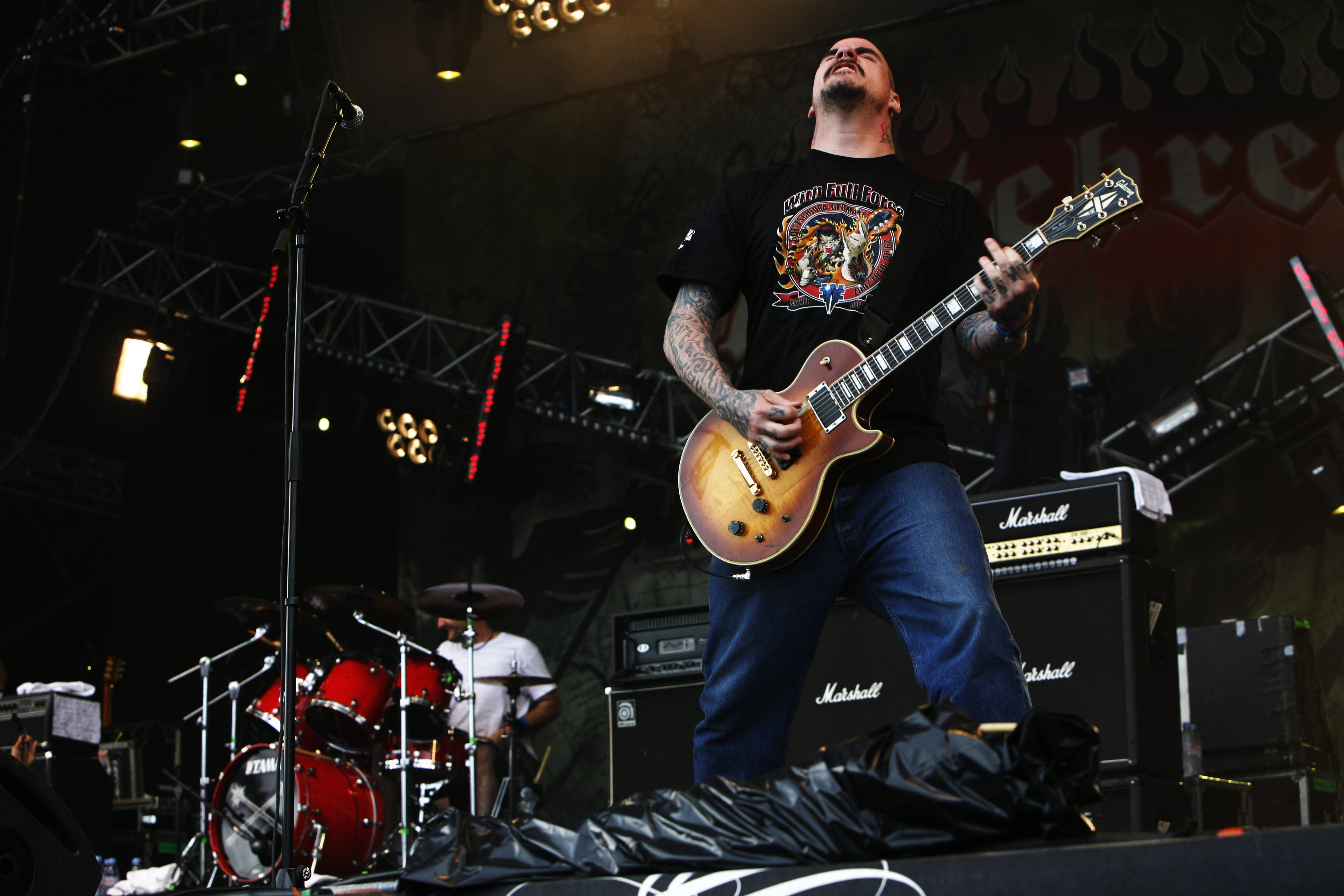 Hatebreed at the Eurockéennes of 2007